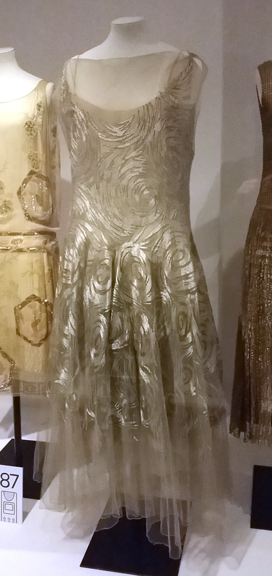 Net evening gown with full skirt, embroidered with silk floss, about 1931. By Madeleine Vionnet (1876-1975).